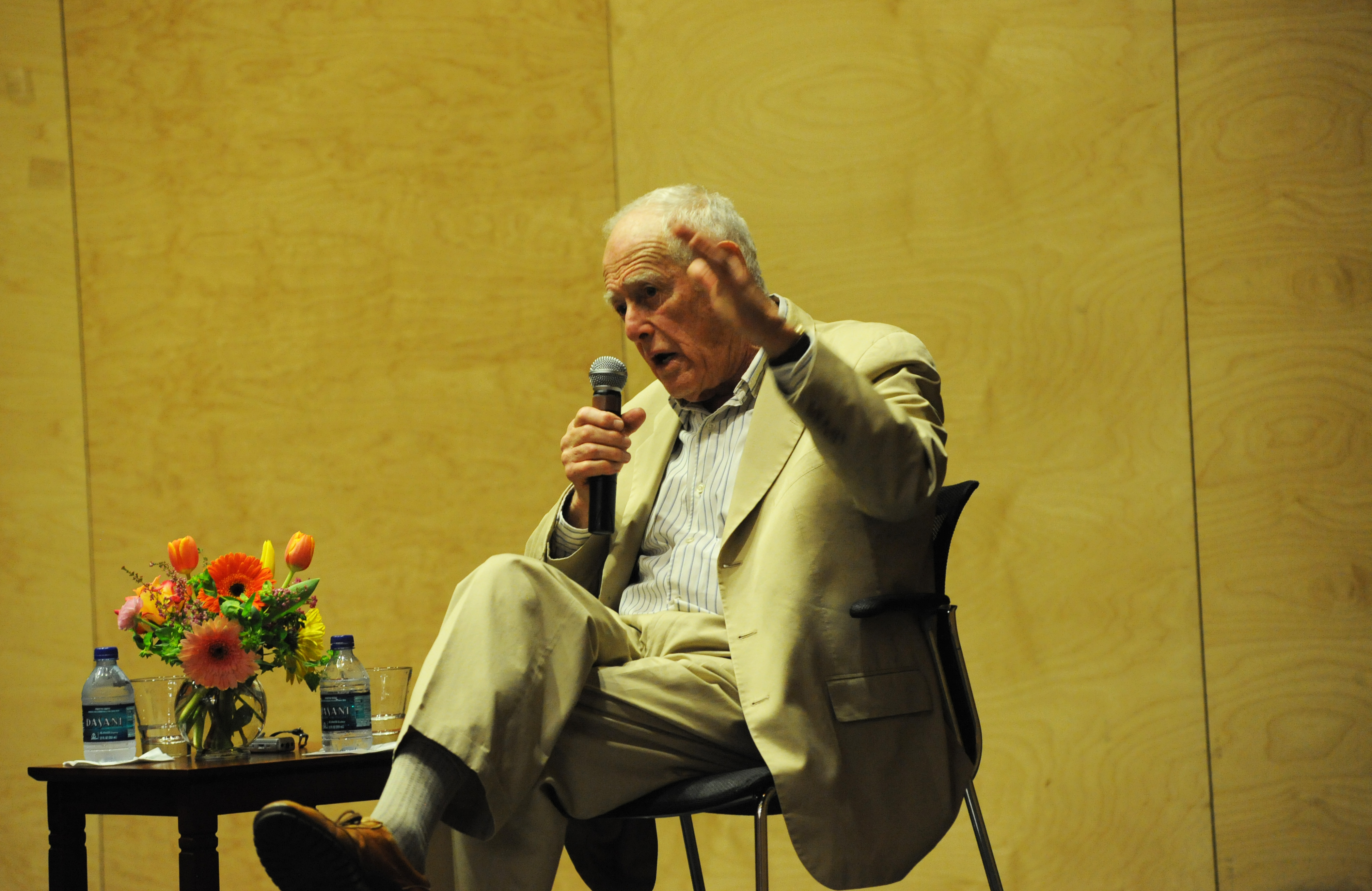 James Salter, American Short Story Writer and Novelist reads at Kendall Cram, Tulane University, New Orleans, November 10, 2010. Sponsored by the English Department as well as the Creative Writing Fund.